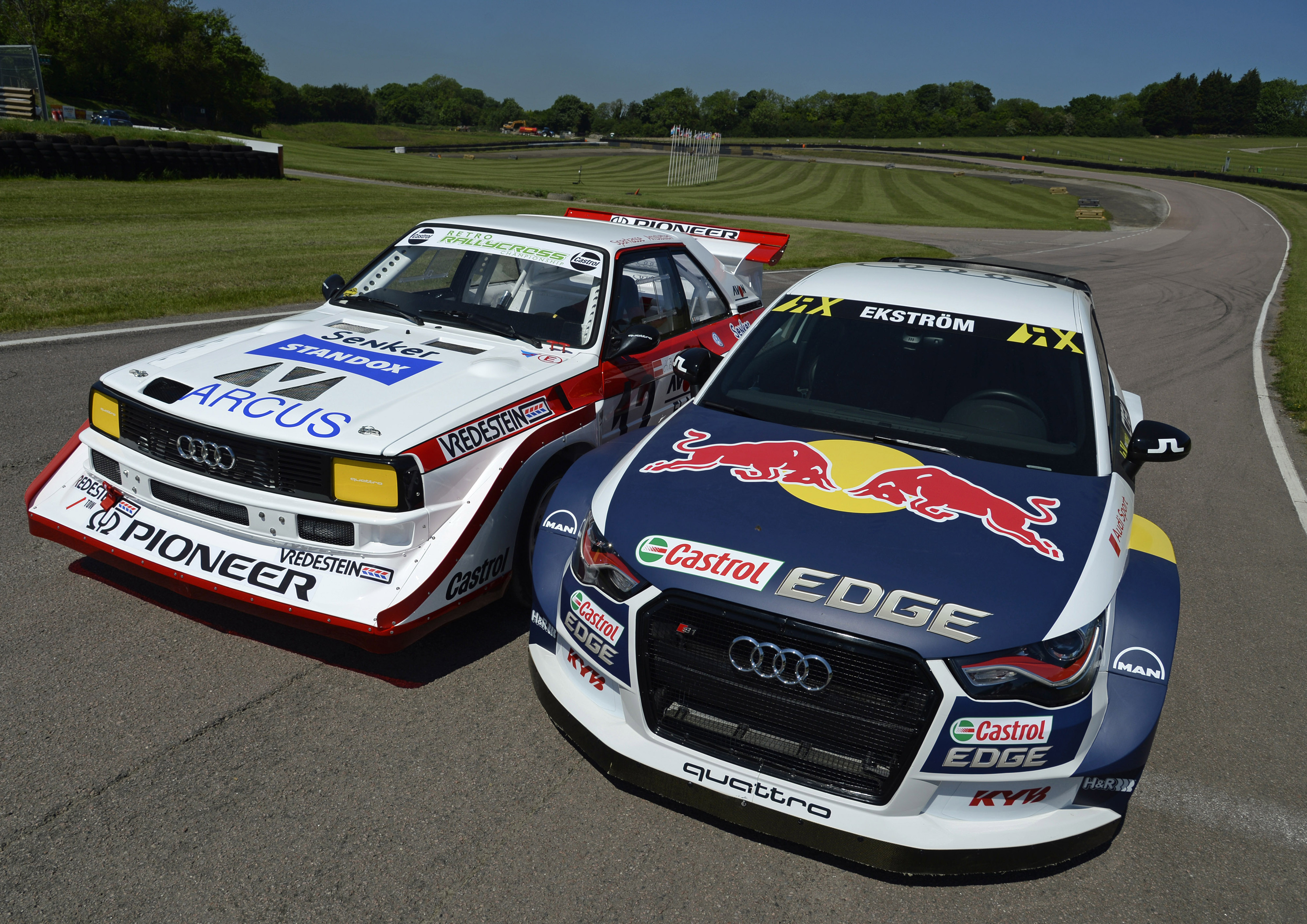 2017 FIA World Rallycross Championship // Round 05, Lydden Hill // Credit: EKS/Daniel Roeseler